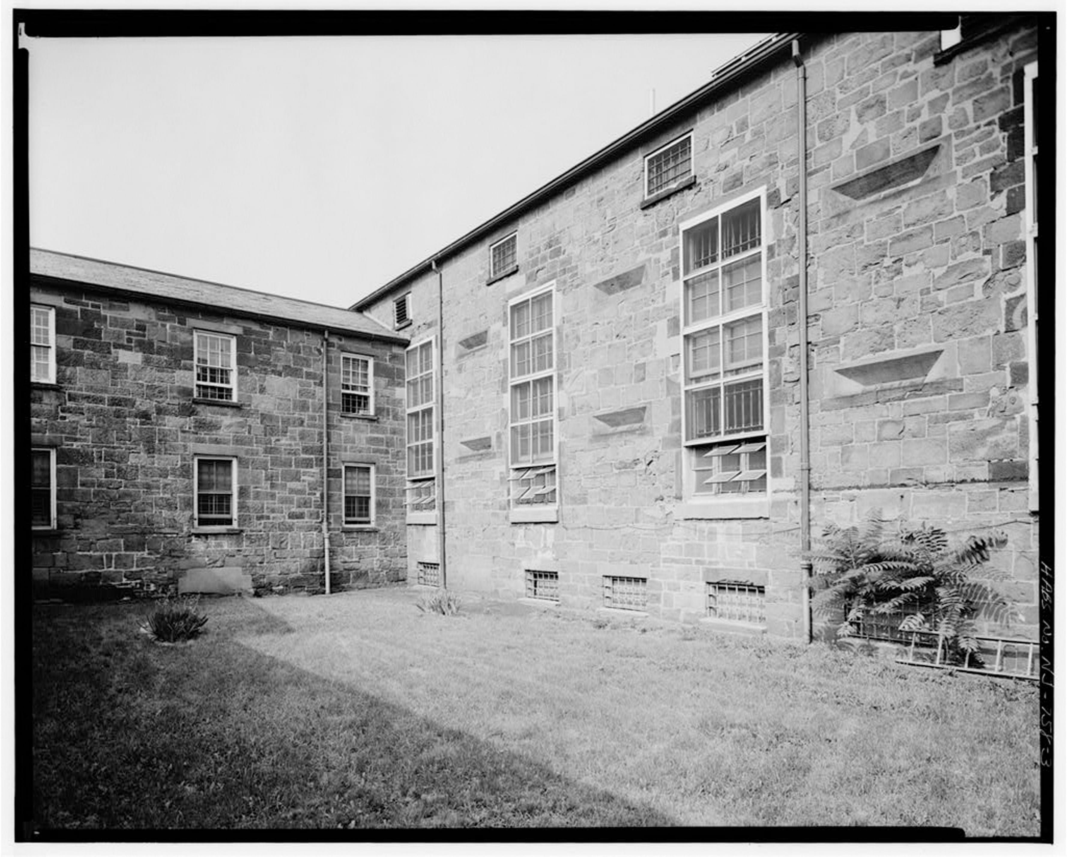 Execution Yard and Garden in Old Essex County Jail, from Historic American Buildings Survey records, photo by George Eisenman for the US government.